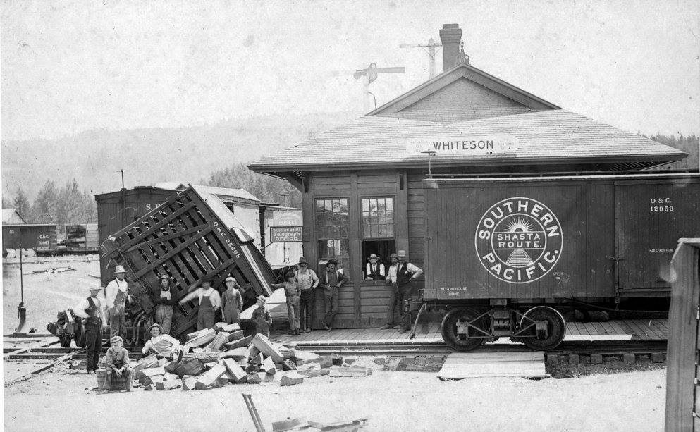 Rail accident at Whites or Whiteson, where the Dayton, Sheridan and Grand Rhonde crossed the Oregon & California west side line